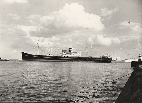 Norwegian cargovessel Elisabeth Bakke, D/S A/S Jeanette Skinner, Haugesund. Callsign: LJJX D.w.t.: 8540 Br.t.: 5450 Lloyds Register 1961-62 Nr 09744